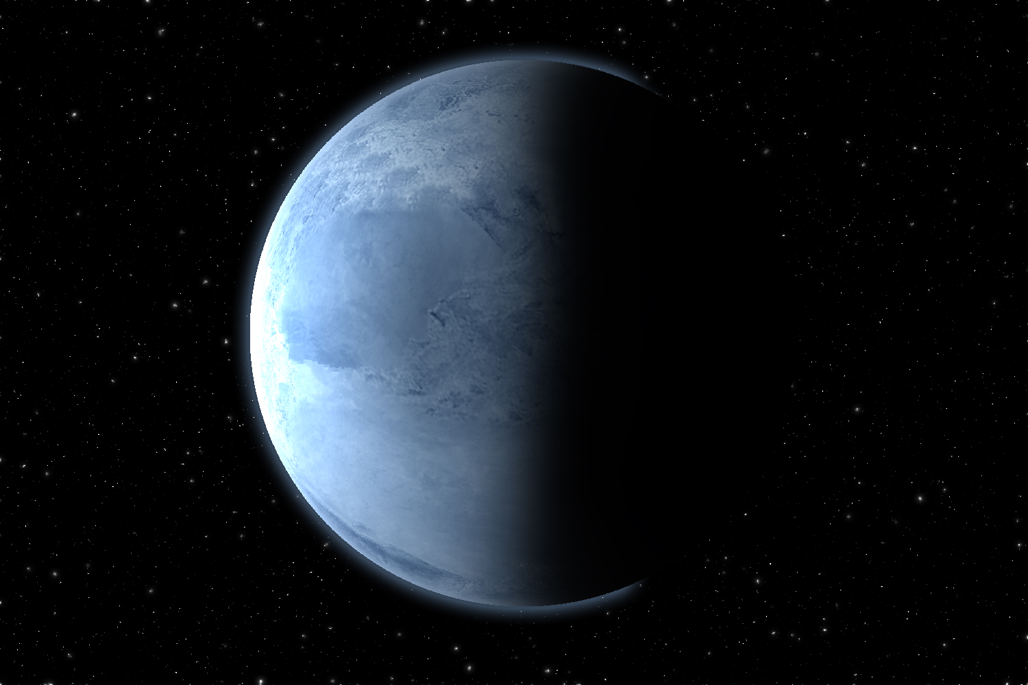 Possible appearance of a thermoplanet